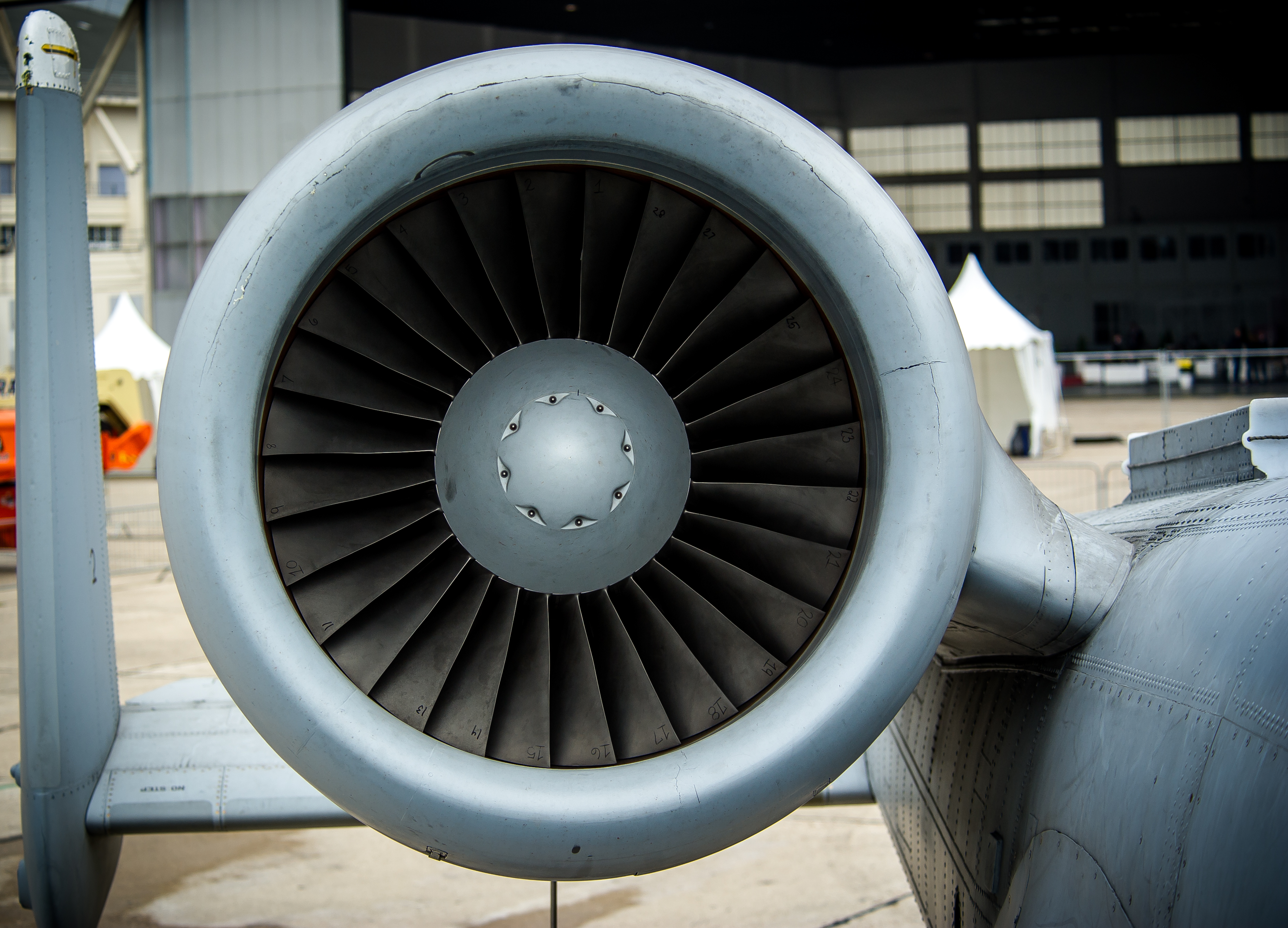 General Electric TF34 on A-10 Thunderbolt II 150618-F-RN211-263 Paris Air Show 2015.